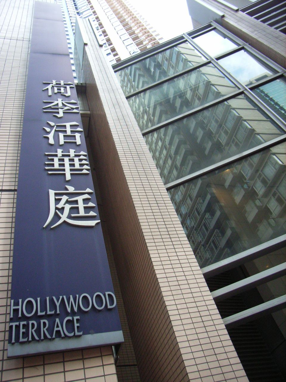 Sheung Wan 上環 User:Mad2006 is the photo author.